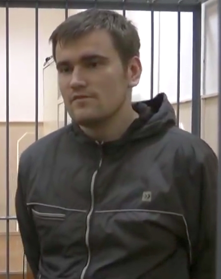 Russian activist Alexey Gaskarov in 2013, after court verdict